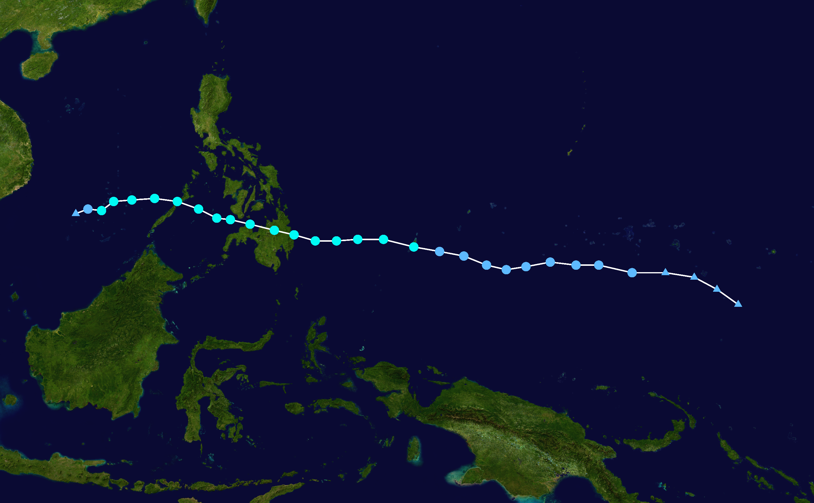 Track map of Severe Tropical Storm Washi of the 2011 Pacific typhoon season. The points show the location of the storm at 6-hour intervals. The colour represents the storm's maximum sustained wind speeds as classified in the Saffir–Simpson scale (see below), and the shape of the data points represent the nature of the storm, according to the legend below. Saffir–Simpson scale Tropical depression≤38 mph≤62 km/h Category 3111–129 mph178–208 km/h Tropical storm39–73 mph63–118 km/h Category 4130–156 mph209–251 km/h Category 174–95 mph119–153 km/h Category 5≥157 mph≥252 km/h Category 296–110 mph154–177 km/h Unknown Storm type Tropical cyclone Subtropical cyclone Extratropical cyclone / Remnant low / Tropical disturbance / Monsoon depression